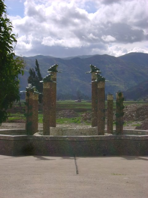 Parqueecologicosapos